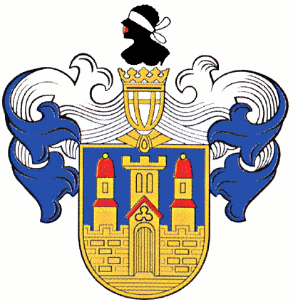 Coat of arms of Eisenberg (Thüringen)